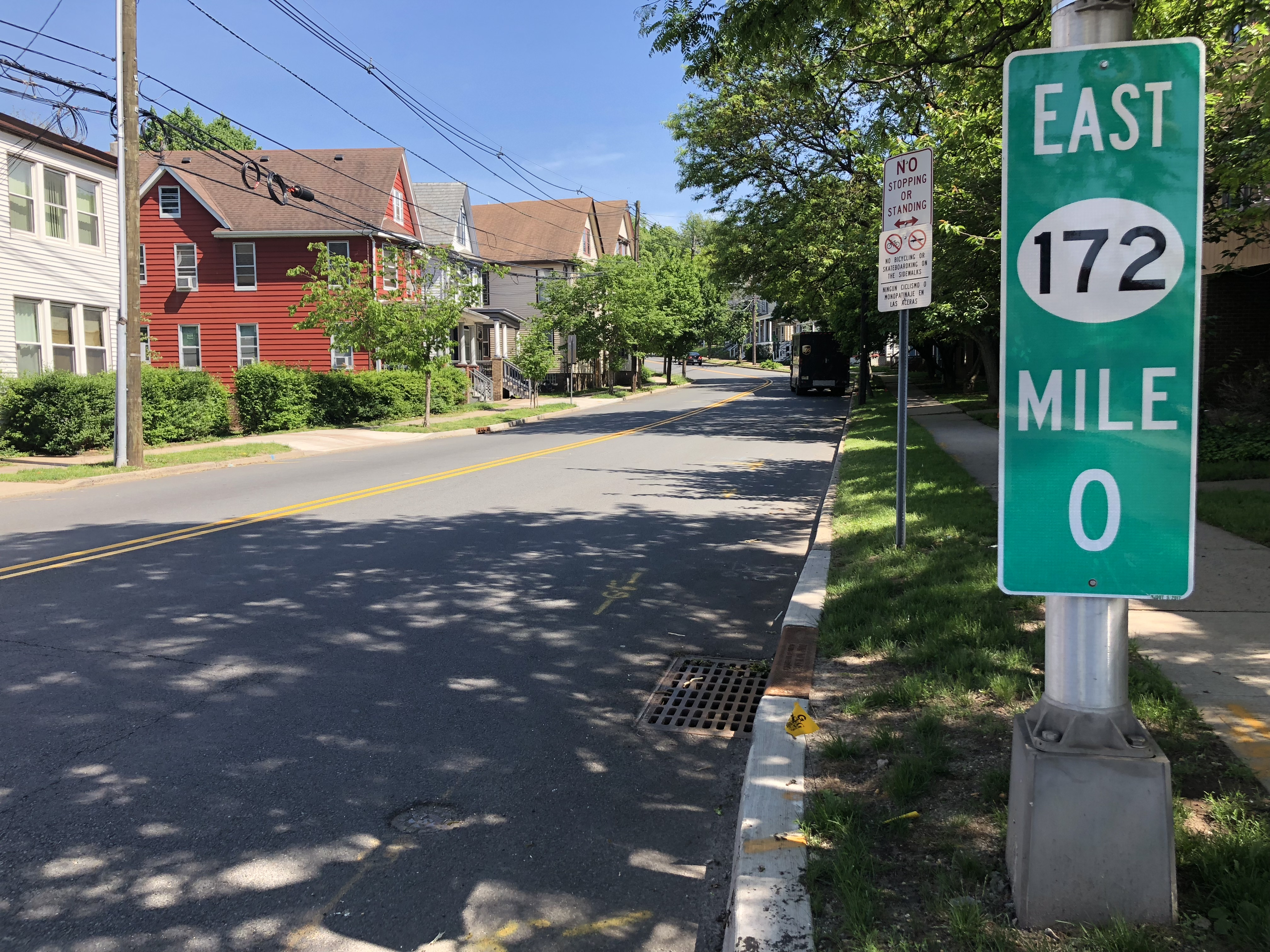 View east along New Jersey State Route 172 and south along Middlesex County Route 527 (George Street) at Commercial Avenue and Middlesex County Route 672 in New Brunswick, Middlesex County, New Jersey